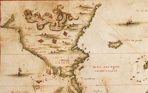 Nicolas_Desliens_detail_of_Java_la_Grande_16th_century